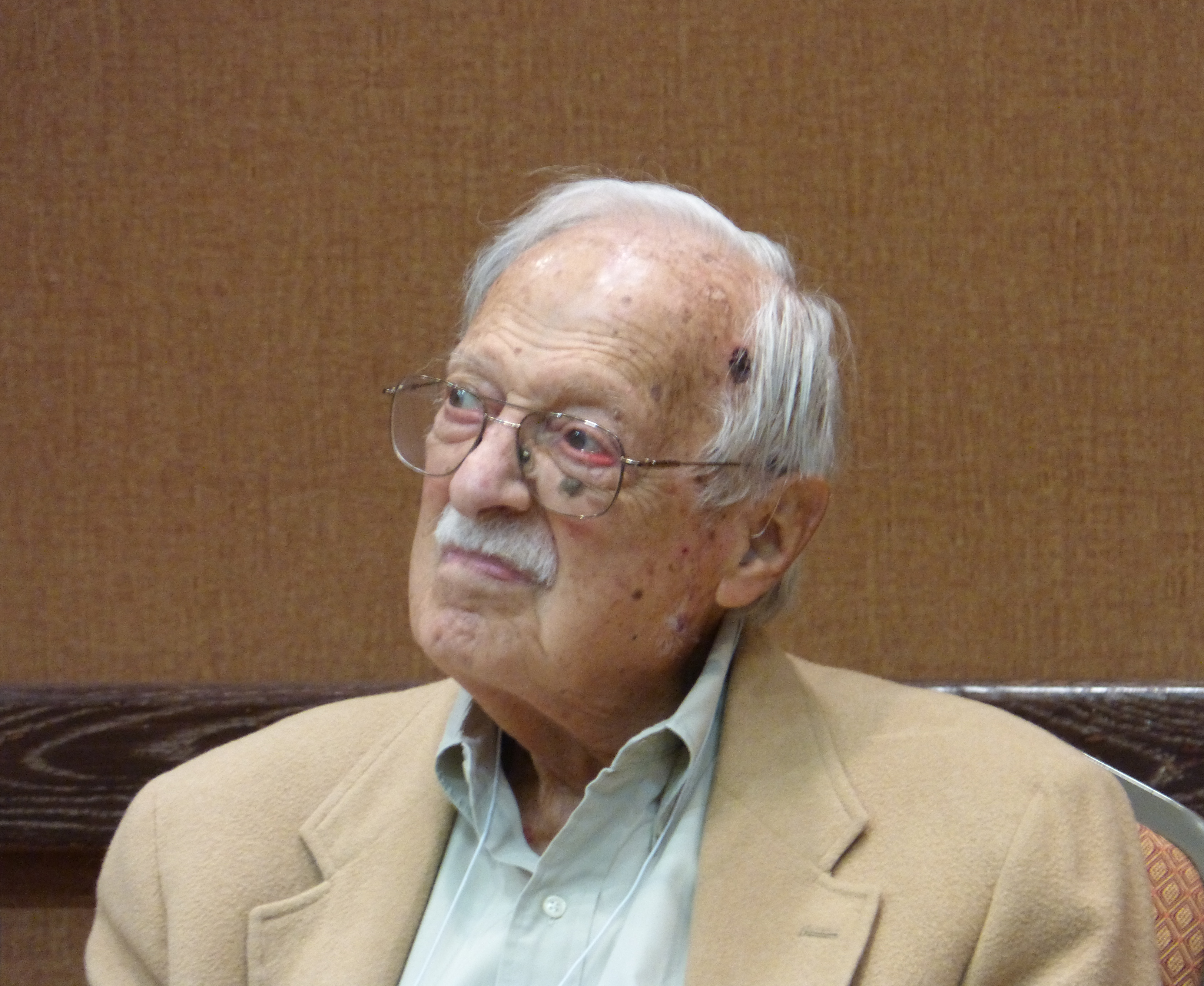 A photo of composer Ray Charles in 2013